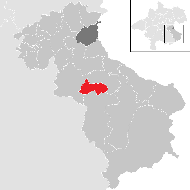 district Steyr-Land